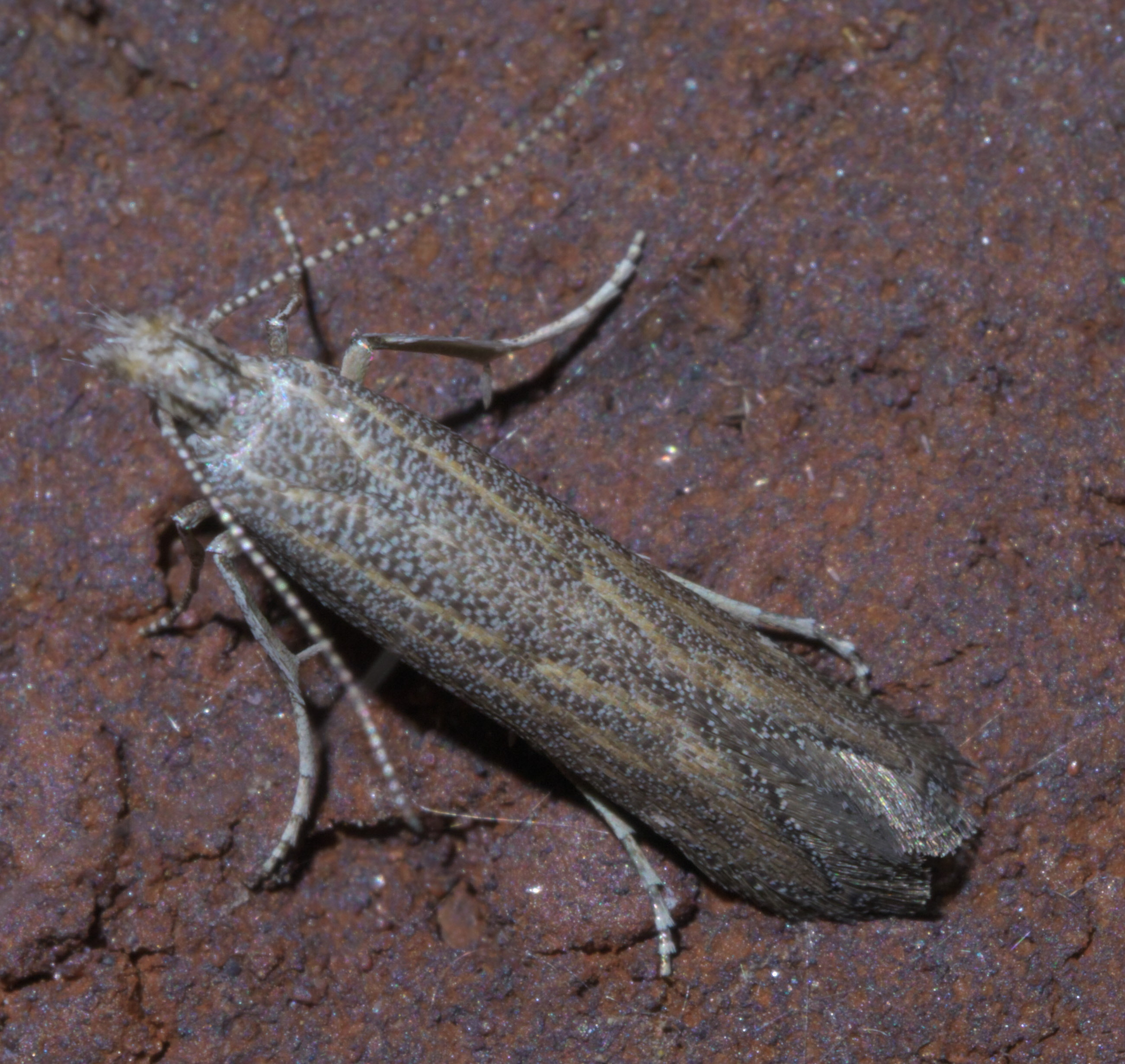 Isophrictis similiella, Hodges #1702, Possibly Isophrictis magnella, ID Confidence: 80